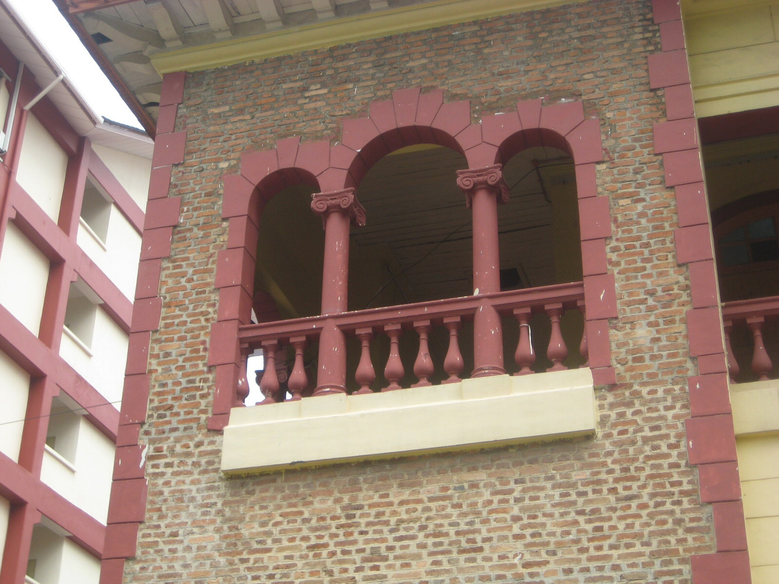 The upper level of the main building